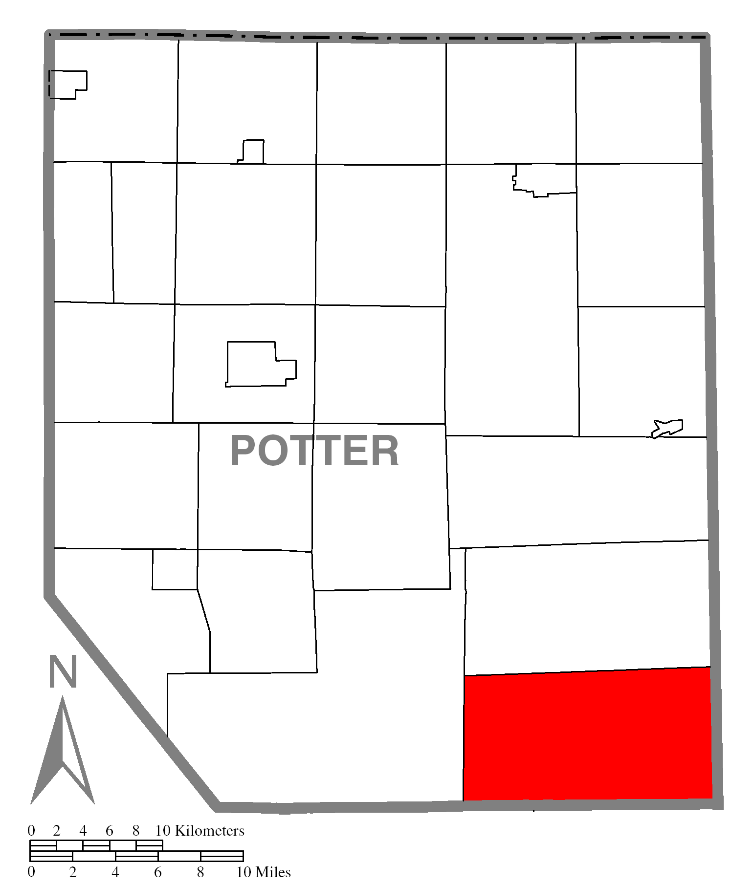 A map of Potter County showing Stewardson Township, Pennsylvania (alternate) highlighted on the map.